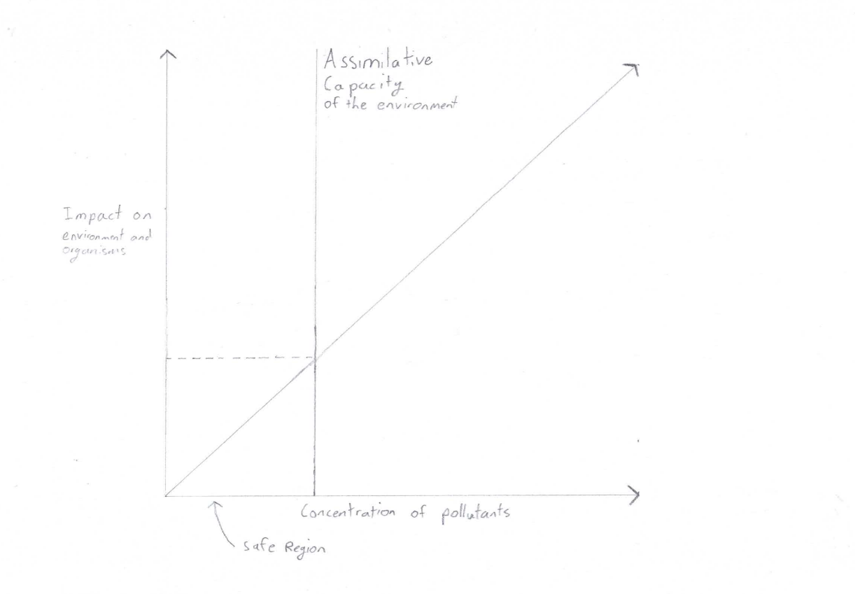 A diagram representing assimilative capacity and the respective safe region in which the environment and living organisms are not impacted by pollutants.